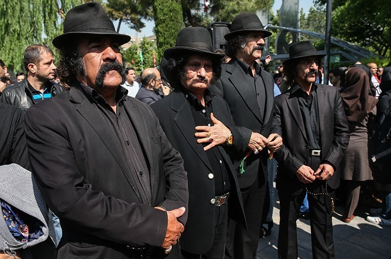 Some Tehrani lutis (urban Robin Hood-type bandits) at Naser Cheshm-Azar's funeral. You can read more about lutis at